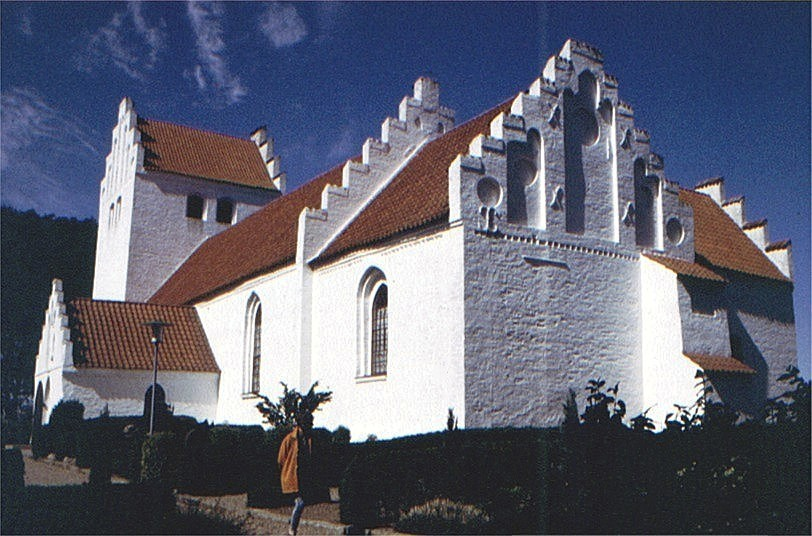 Koldby Church (Samsø Municipality, Denmark).